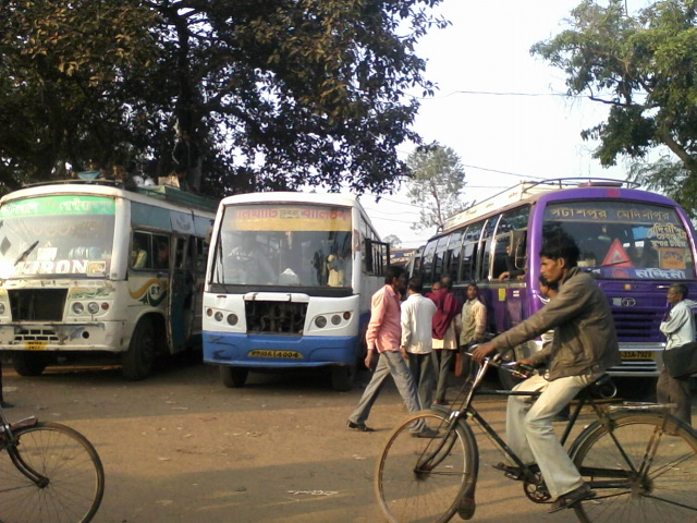 বালিচক বাস স্টান্ড